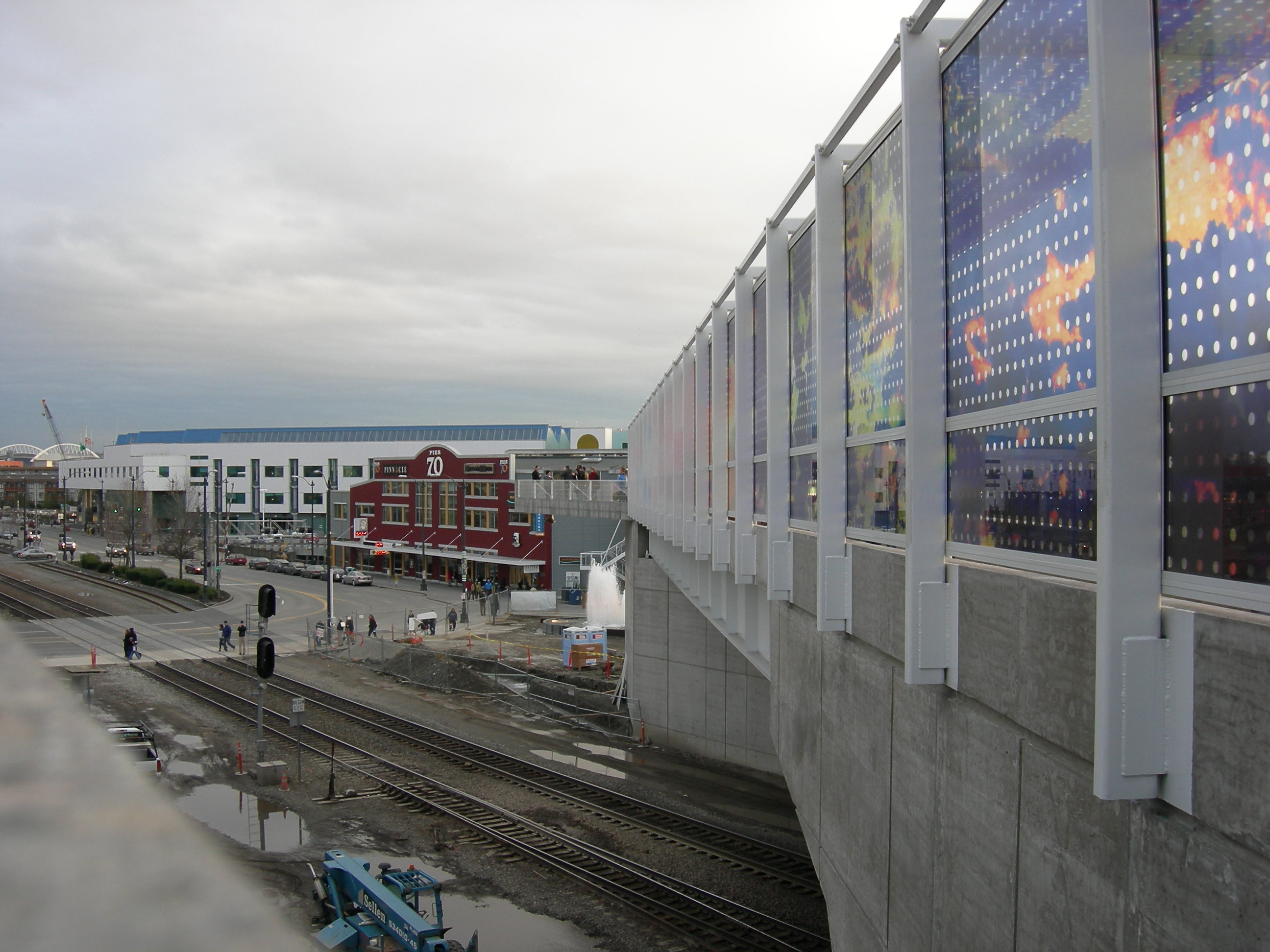 Teresita Fernandez, Seattle Cloud Cover, Olympic Sculpture Park, Seattle, Washington. Pier 70 in background at left.